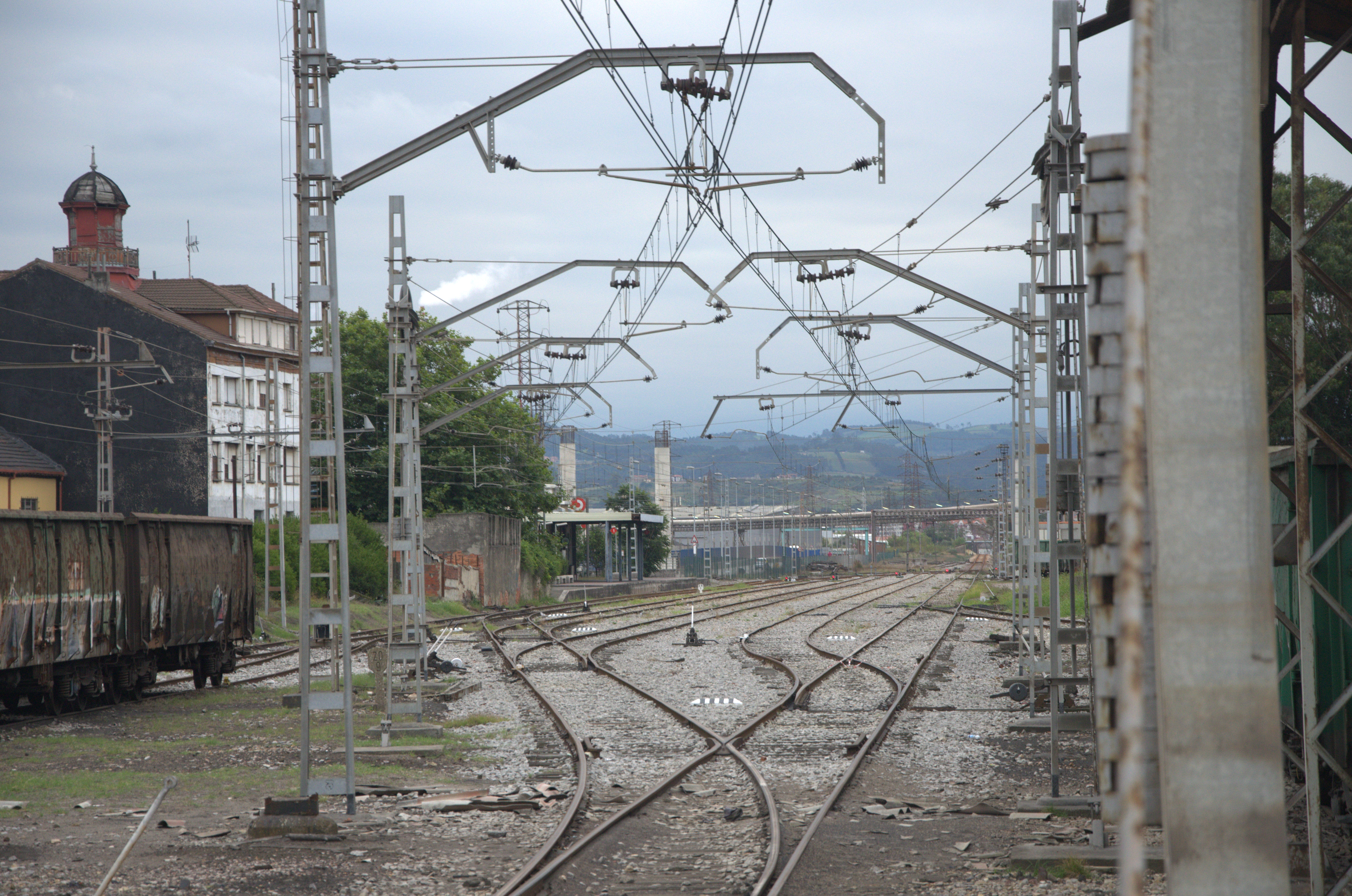 Railway station of San Juan de Nieva (Asturias, Spain).